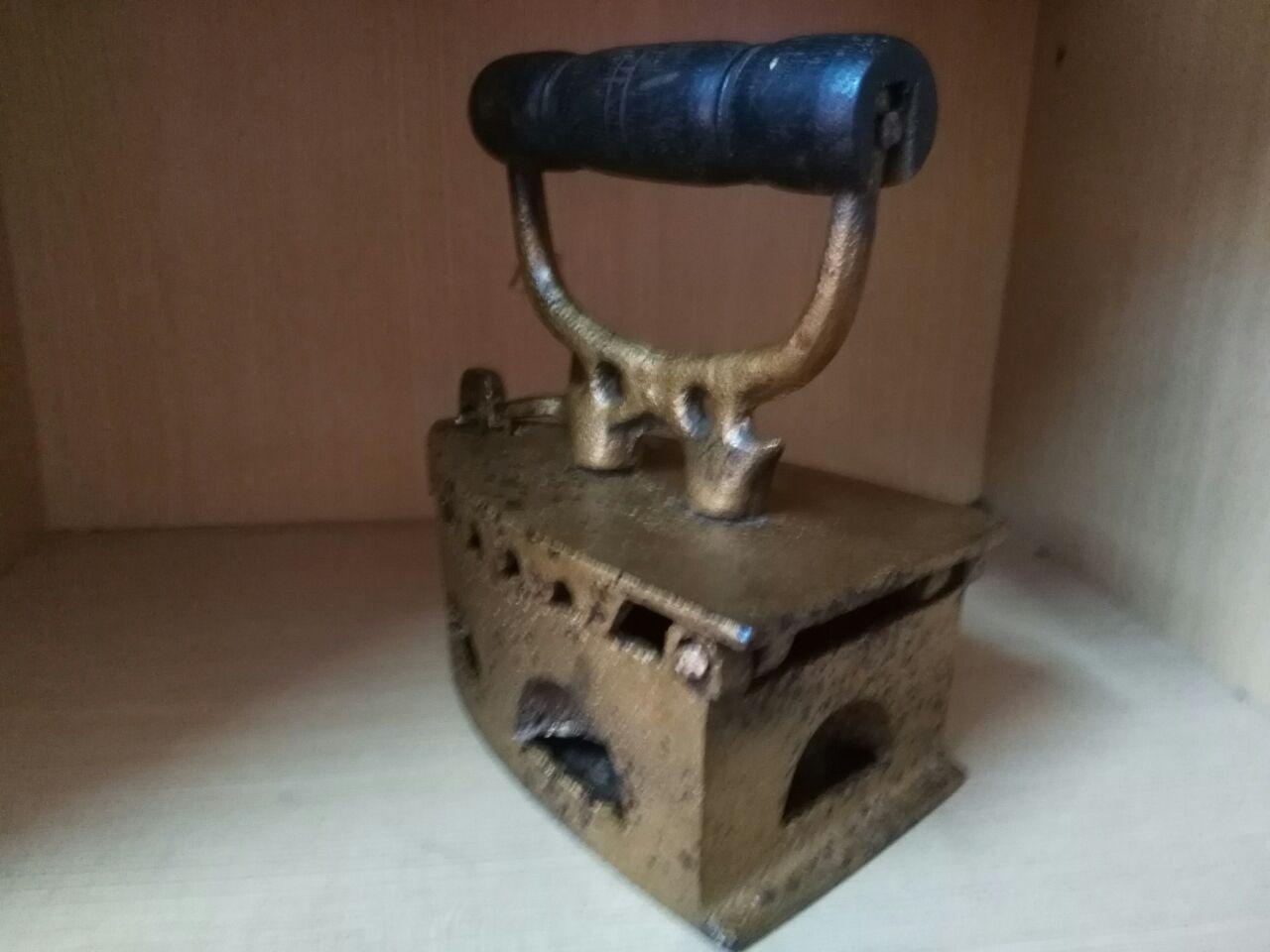 Seterika